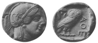 Tetradrachm of Athens, fifth century BCE. On the obverse, a portrait of Athena, patron goddess of the city. On the reverse, the owl of Athens. I, Joe I, award this Tetradrachm of Athens to Enlil Ninlil for reviving ancient currencies and all of your Numismatic contributions. Wisdom.